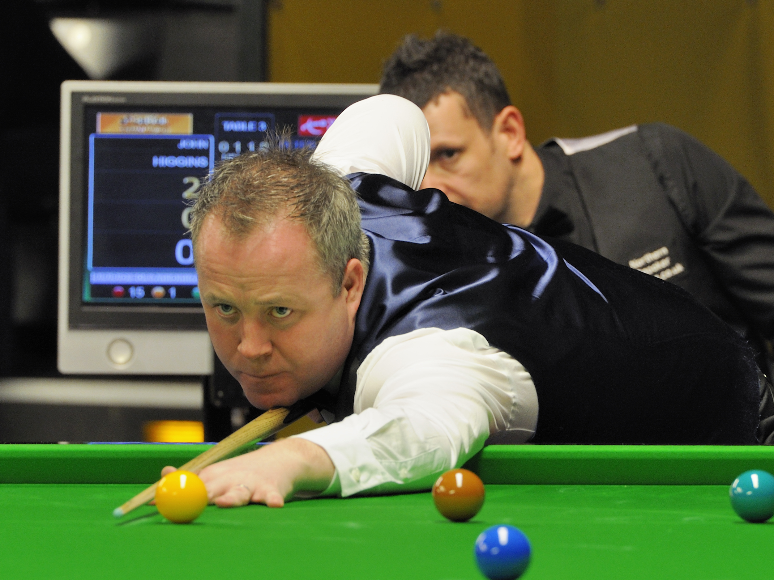 Picture taken in Berlin during the Snooker German Masters in 2013. John Higgins, Peter Lines.